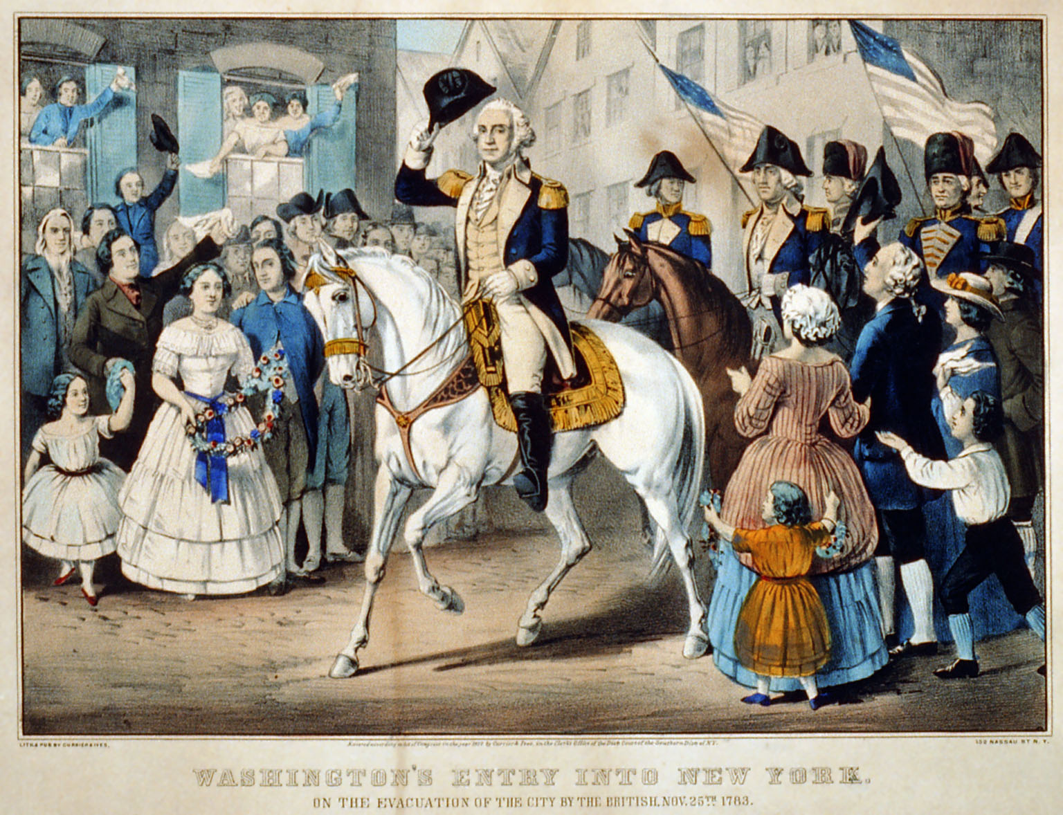 Title: Washington's entry into New York: on the evacuation of the city by the British, Nov. 25th. 1783 Creator(s): Currier & Ives., Date Created/Published: New York : Published by Currier & Ives, c1857. Medium: 1 print : lithograph, hand-colored. Reproduction Number: LC-USZC2-3310 (color film copy slide) LC-USZ62-2259 (b&w film copy neg.) Rights Advisory: No known restrictions on publication. Call Number: PGA - Currier & Ives--Washington's entry into New York:... (B size) [P&P] Repository: Library of Congress Prints and Photographs Division Washington, D.C. 20540 USA Notes: Reference copy in the Presidential file. Currier & Ives : a catalogue raisonné / compiled by Gale Research. Detroit, MI : Gale Research, c1983, no. 7071. Subjects: Washington, George,--1732-1799--Military service. United States--History--Revolution, 1775-1783--Peace. Format: Lithographs--Hand-colored--1850-1860.